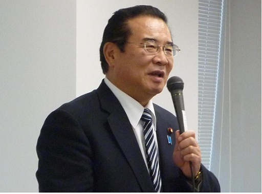 Kenji Yamaoka, Minister of State for Consumer Affairs and Food Safety, addressed at the Sanno Park Tower in Chiyoda Ward, Tōkyō Metropolis on January 5, 2012. (For terms of use, see 利用規約｜消費者庁.)